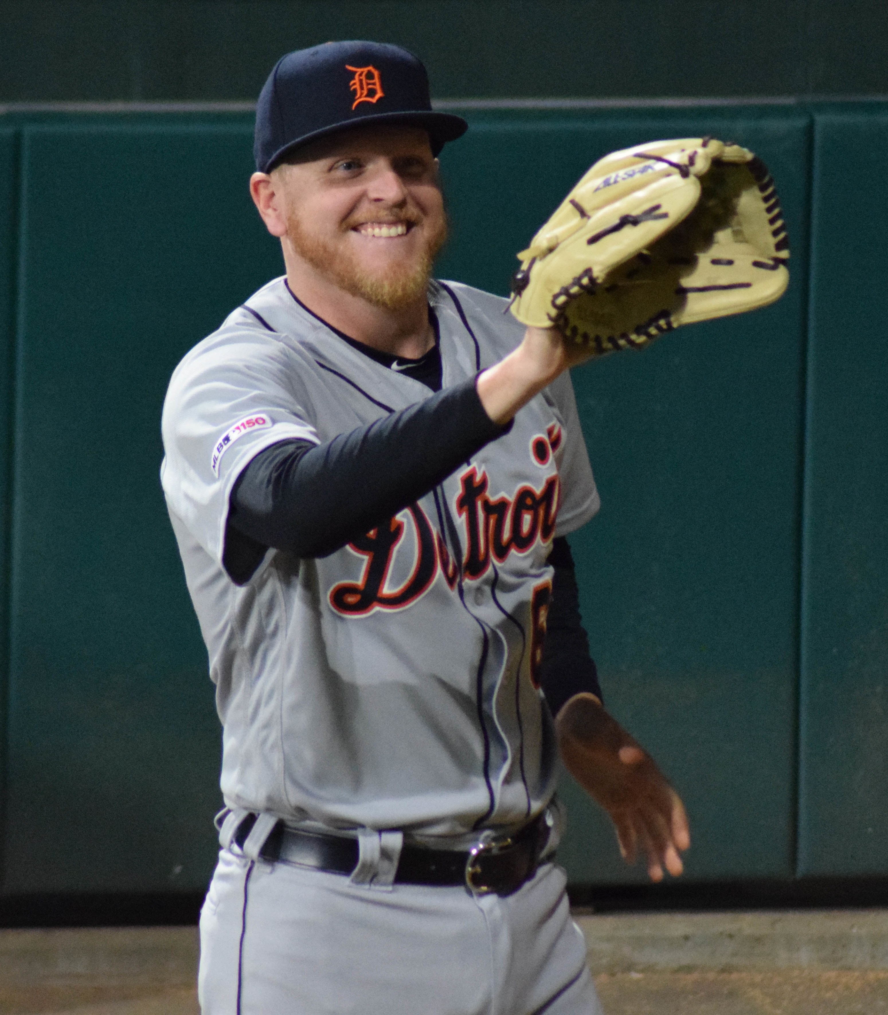 Daniel Stumpf of the Detroit Tigers at Citizens Bank Park in Philadelphia in April 2019.